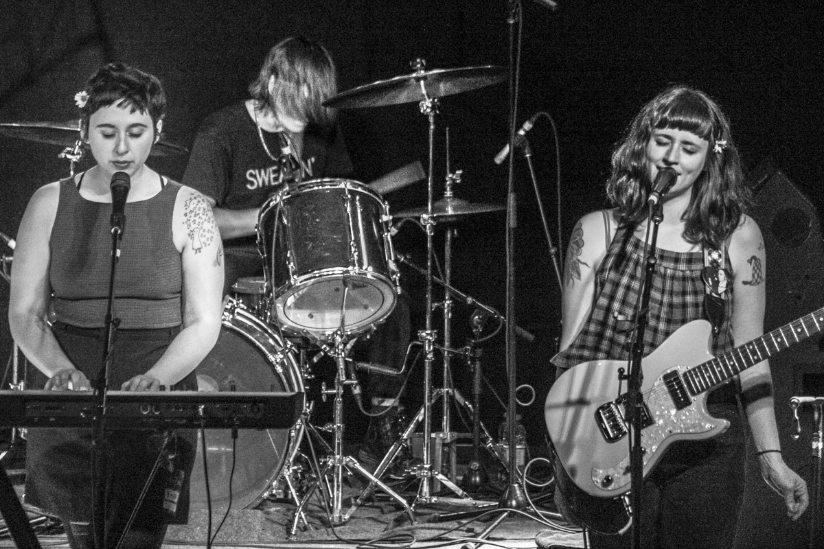 Waxahatchee brought their new album Ivy Tripp to the Sinclair on Wednesday, May 13, 2015. Fleabite and Girlpool opened. Photos ©2015 by Scott Murry.